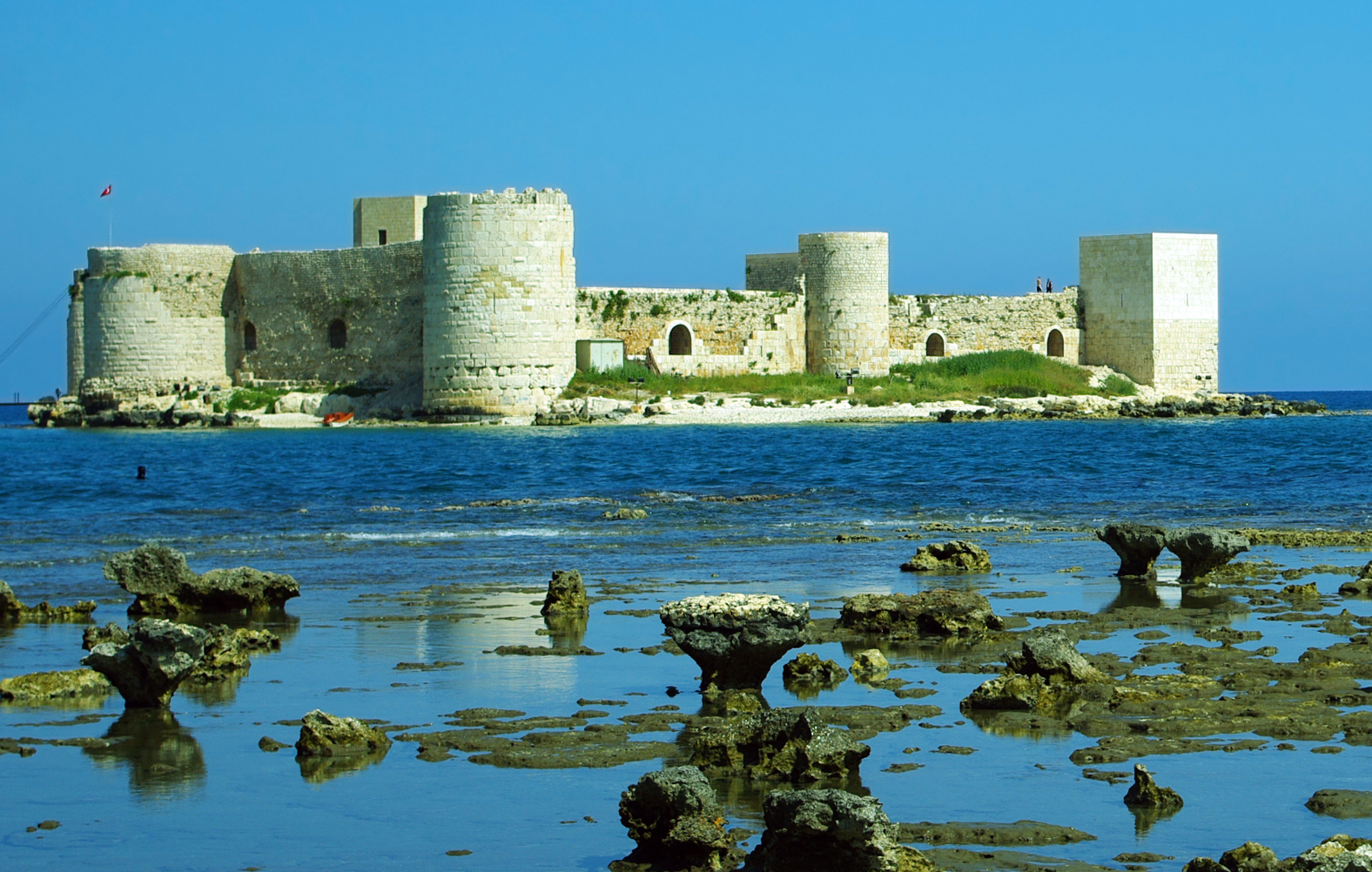 A northwestern view of Kızkalesi (Korykos). Erdemli, Mersin - Turkey.